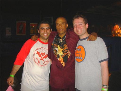 Angelo Moore (in the middle)